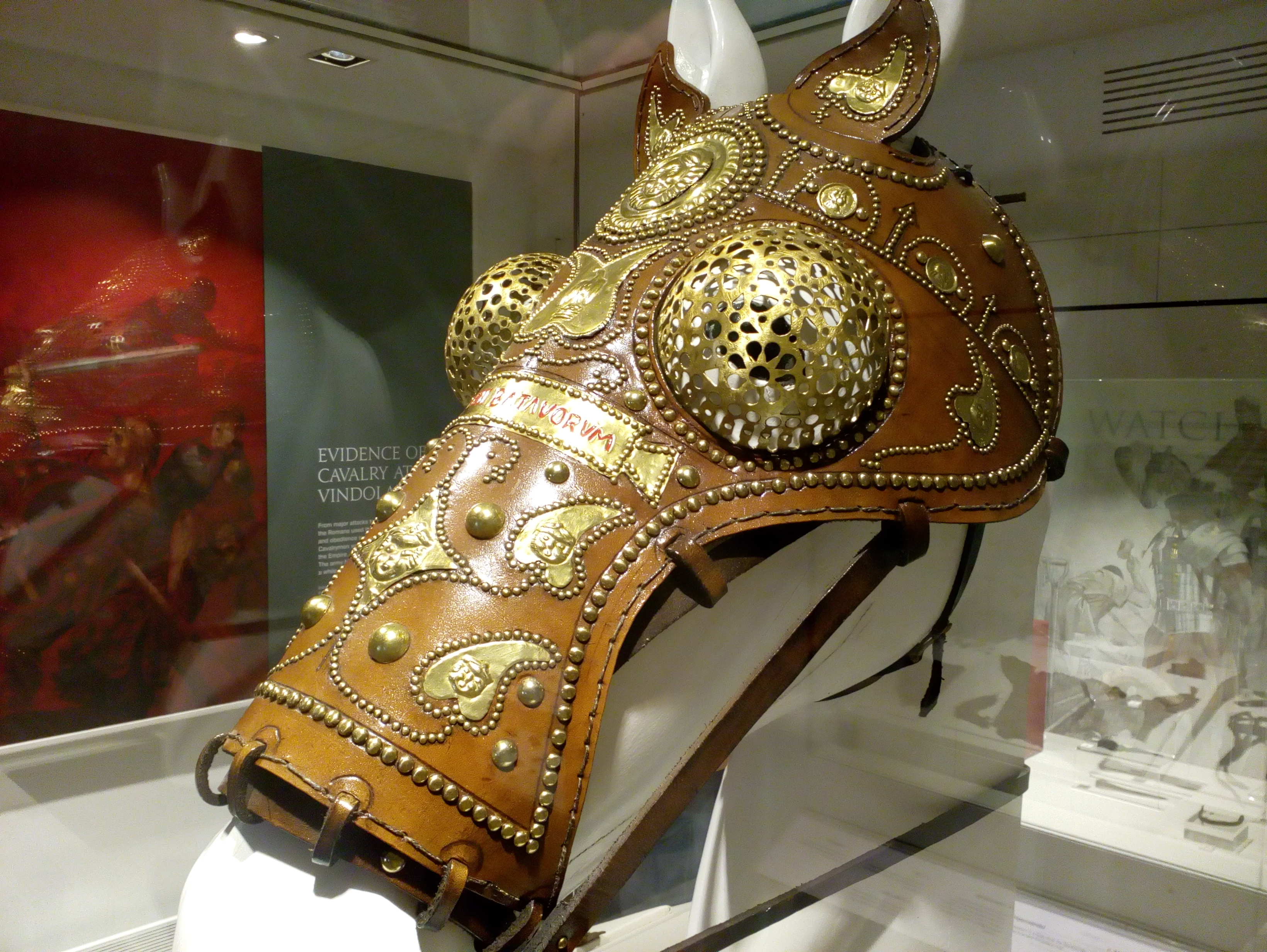 Vindalanda finds in the museum in 2017